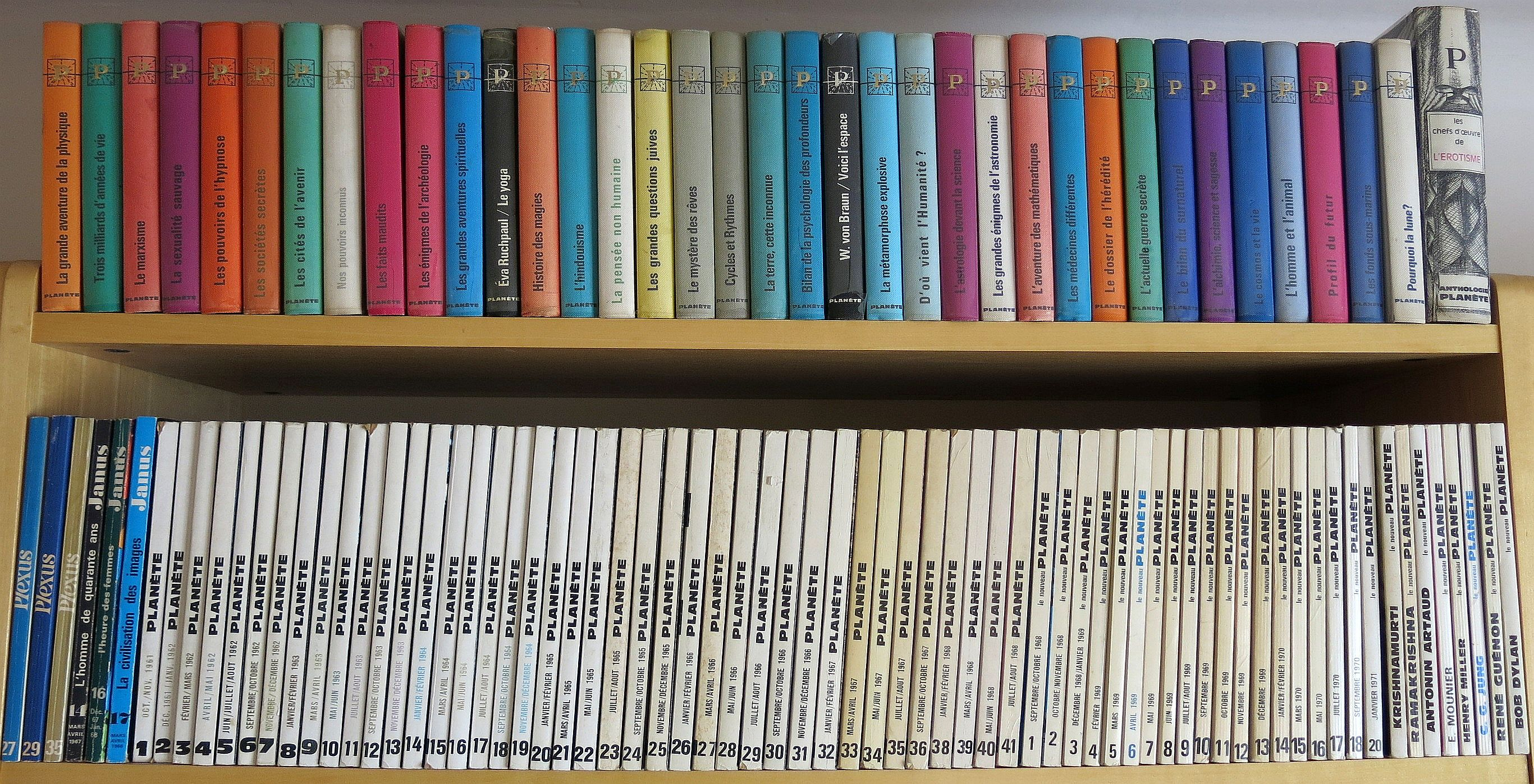 Collection of the reviews and books of the French review Planète.